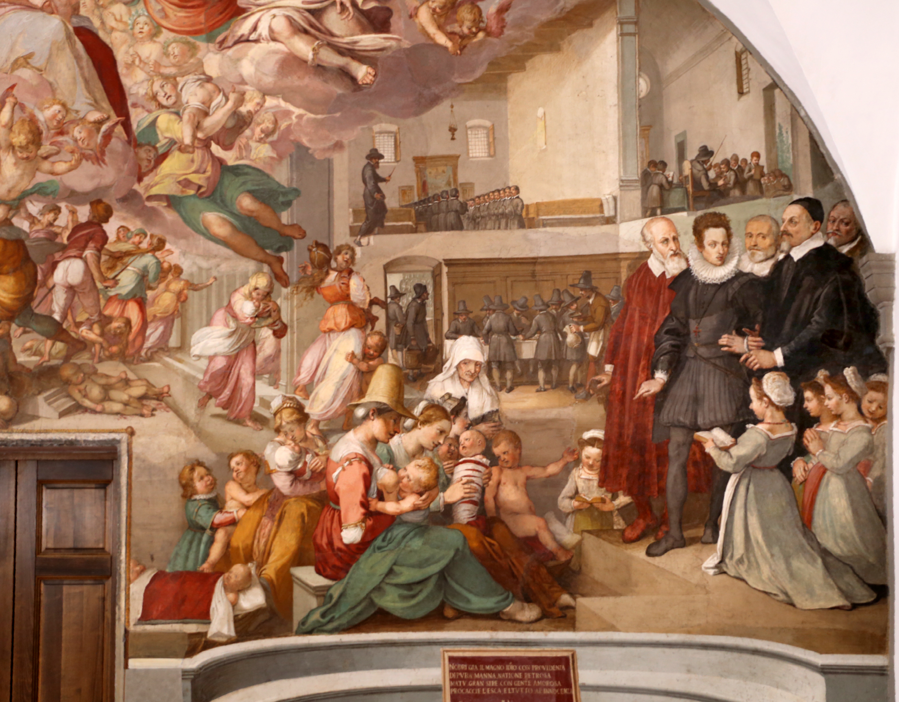 Spedale degli Innocenti - Ex-Refectory